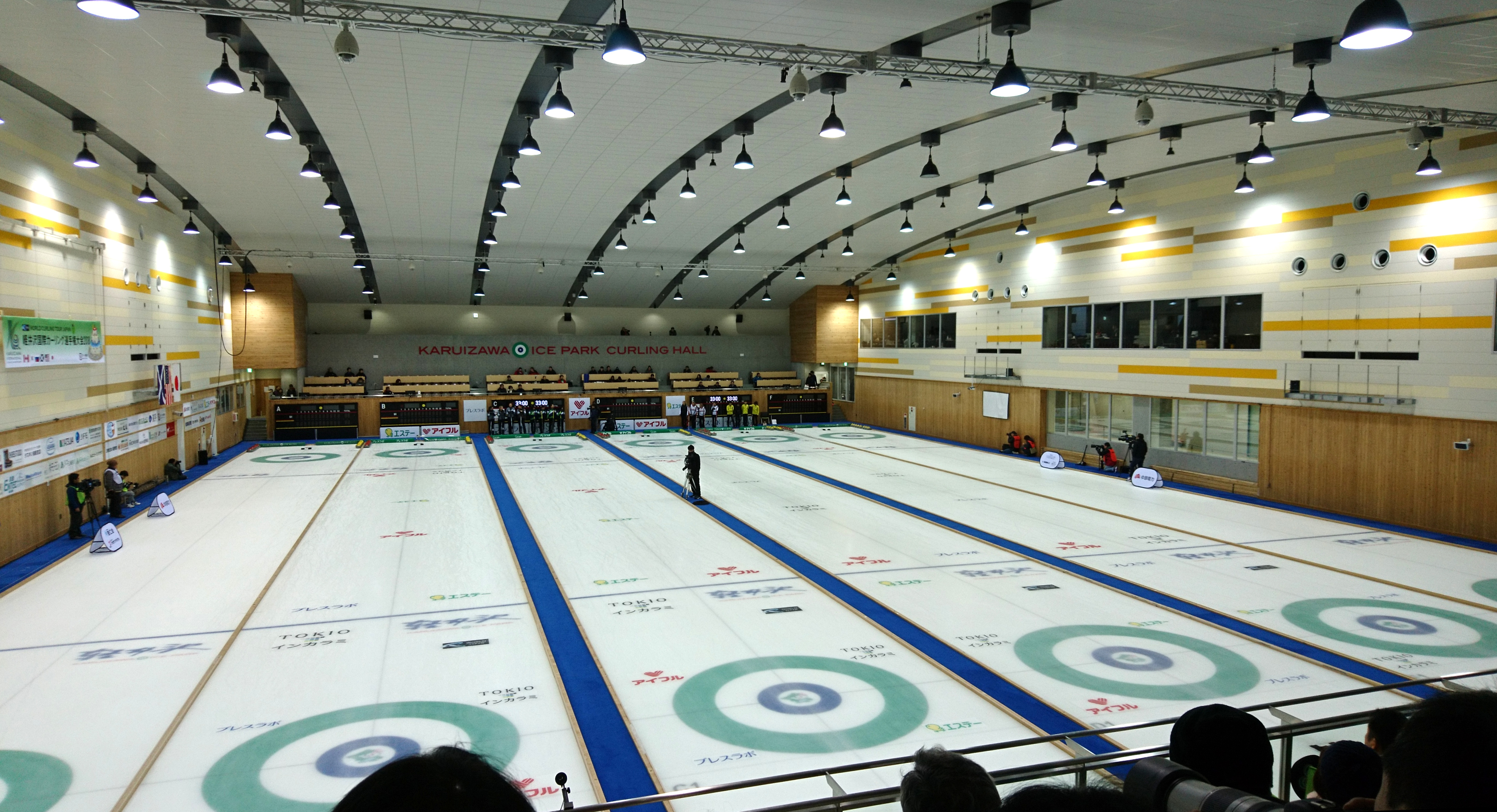 Karuizawa Ice Park where the Karuizawa International Curling Championship was held in 2018